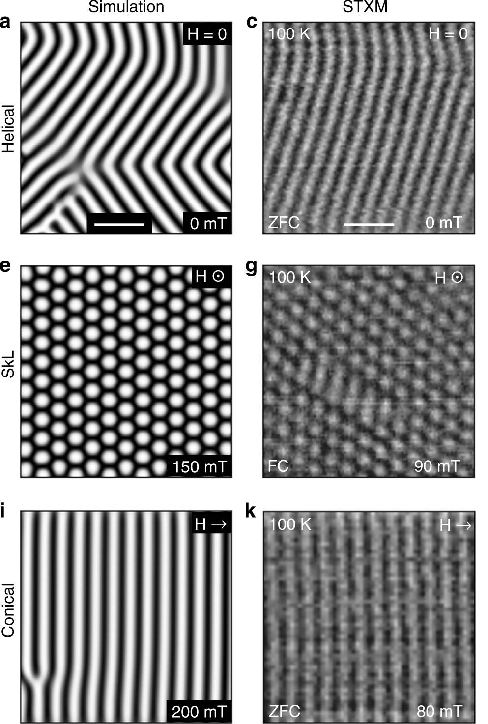 Micromagnetic simulations and experimental Scanning Transmission X-ray microscopy (STXM) of the a–c helical, e–g Skyrmion and i–k conical magnetic spin textures. Scale bars are 200 nm.